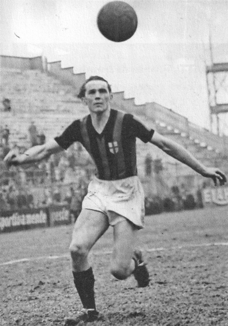 Italian footballer Aldo Boffi playing for A.C. Milan between 2nd half of 1930s and 1st half of 1940s.